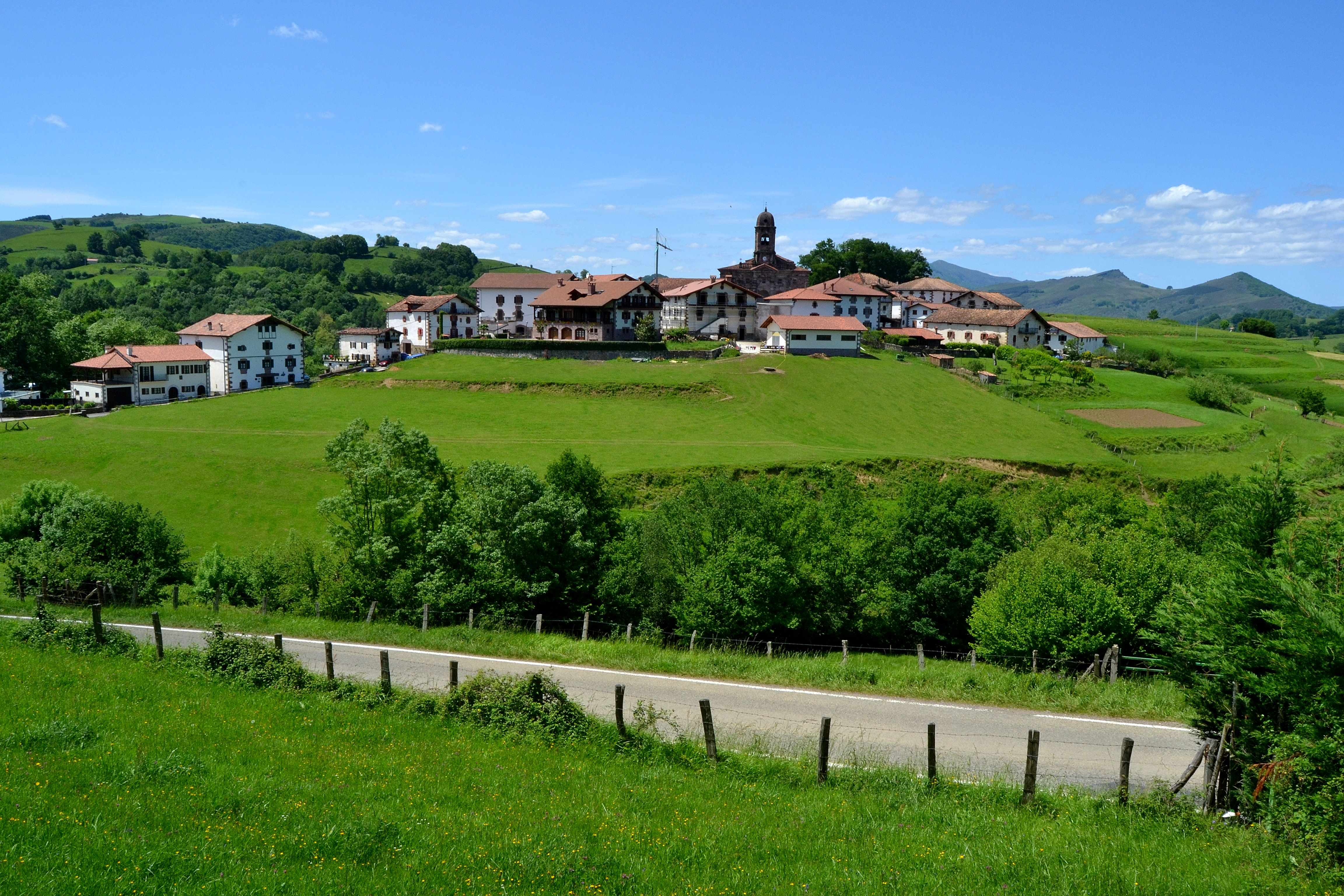 Ziga. Baztan, Navarre. Basque Country.